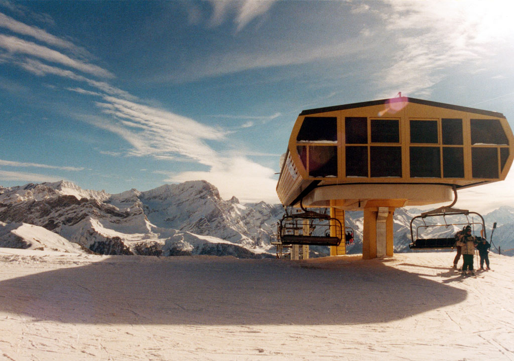 Ski lift at Chaux Ronde in the Villars-sur-Ollon village, Ollon, Vaud, Switzerland 2002